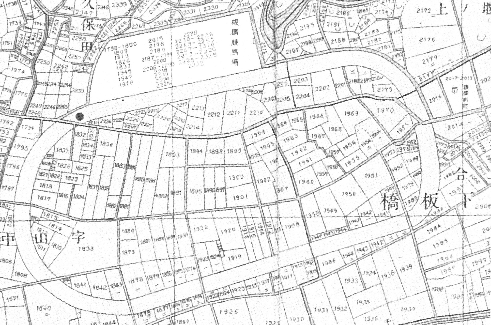 Itabasi Racecourse Map 1911